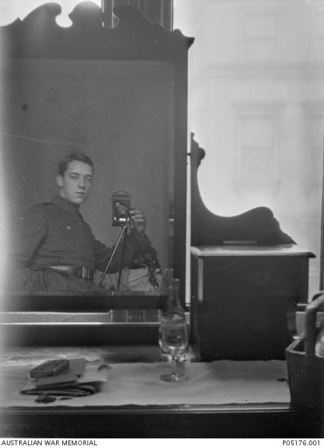 Self portrait taken by Gunner Thomas Baker using the reflection in a dresser mirror with Kodak camera. Baker served with an artillery unit on the Western Front in the First World War, before transferring to the Australian Flying Corps as a pilot.